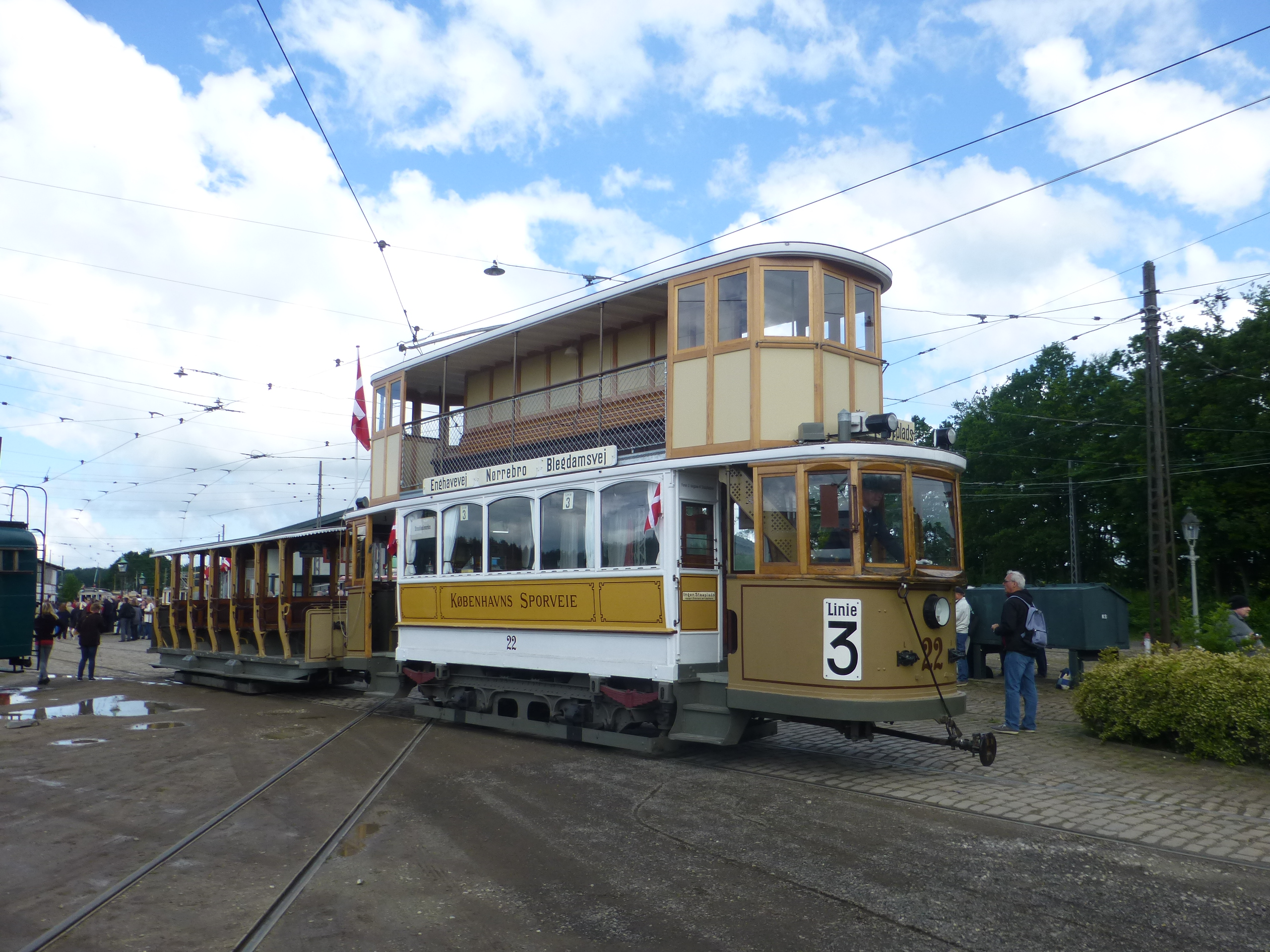 Tram parade at Sporvejsmuseet Skjoldenæsholm due to celebrating of 50 years of the Danish tramway society, Sporvejshistorisk Selskab. Tram from Copenhagen, KS 22 from 1900 and KS 389 from 1909.